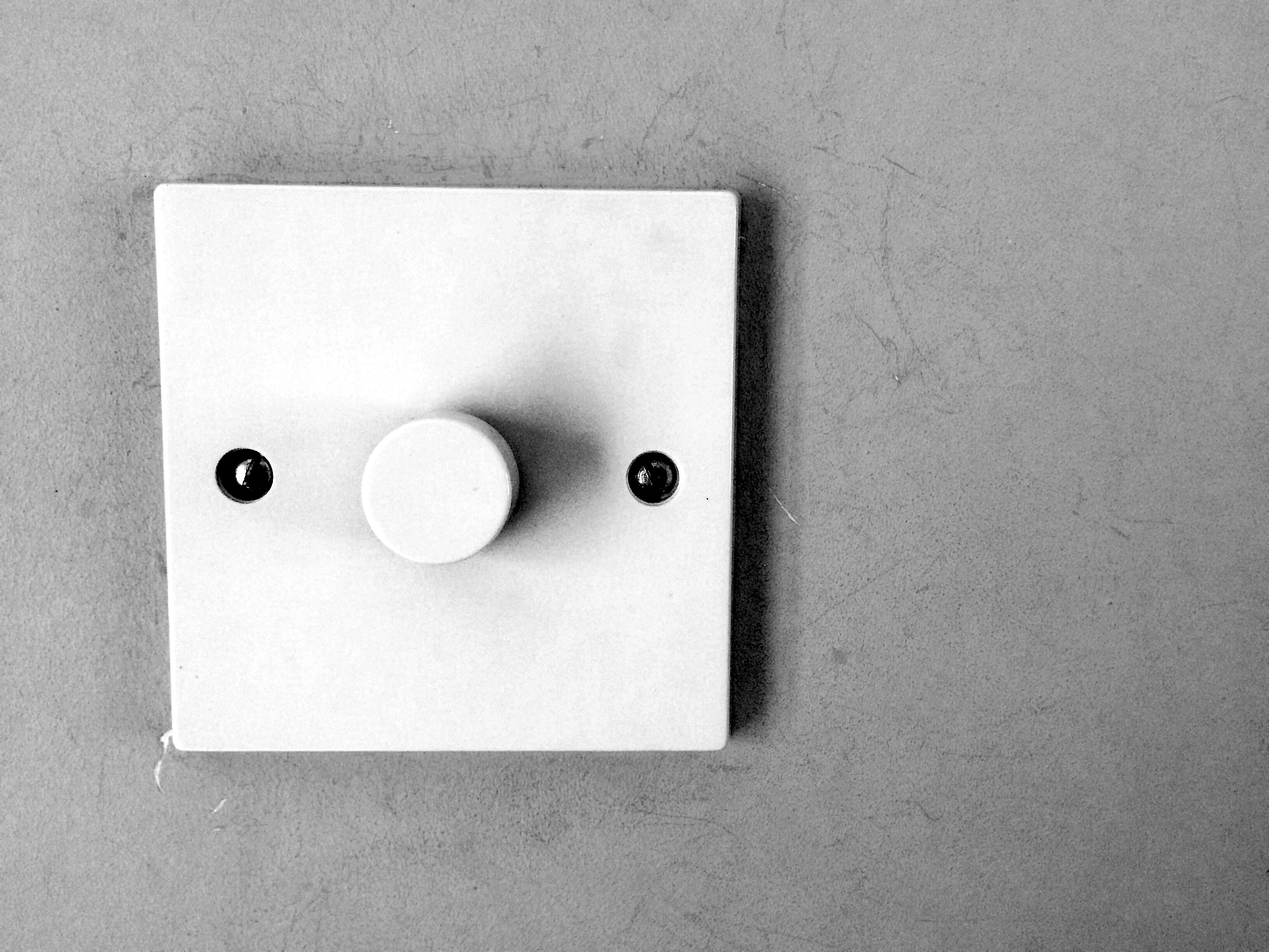 A light switch with dimmer